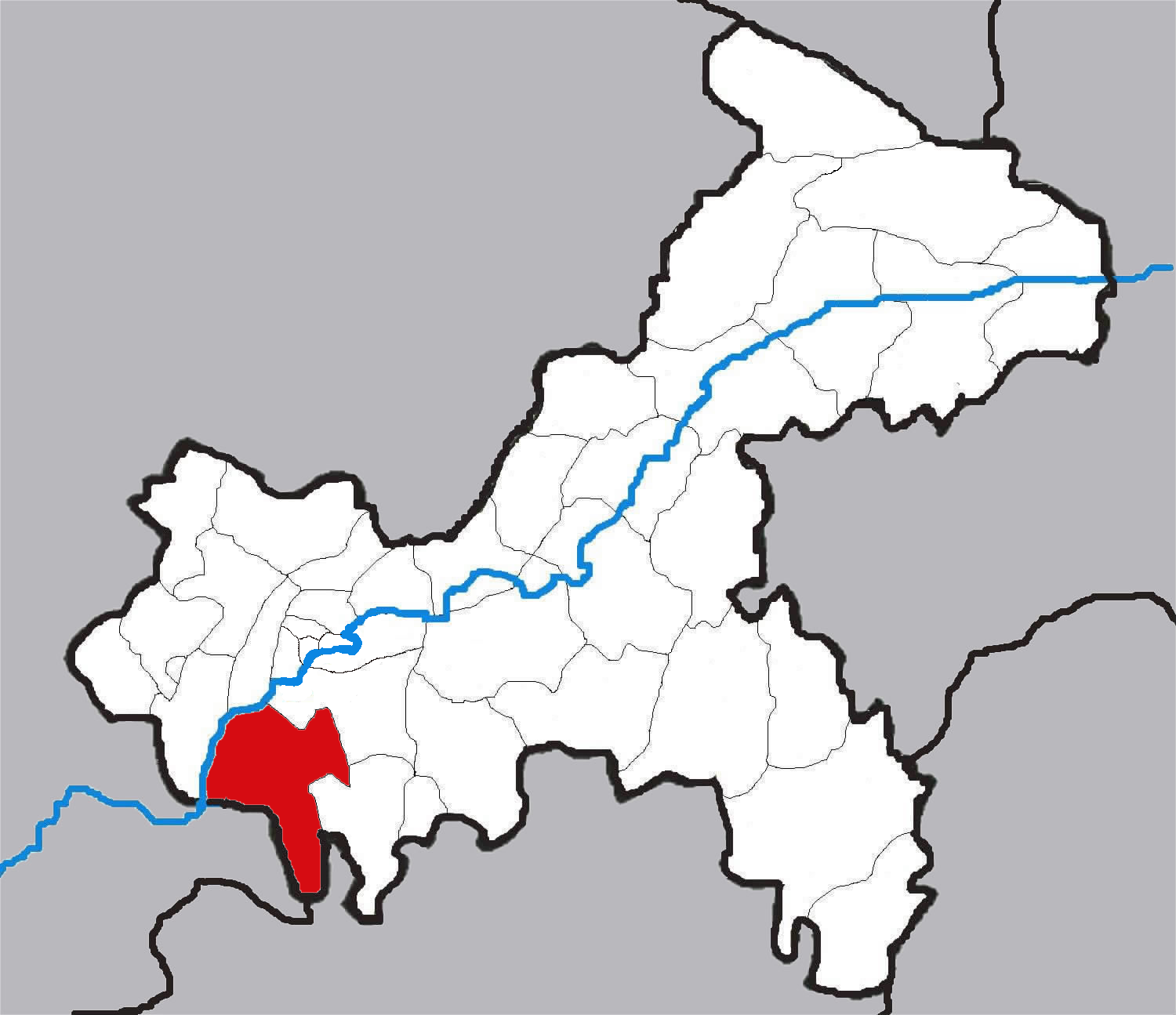 Administration maps of Chongqing, China